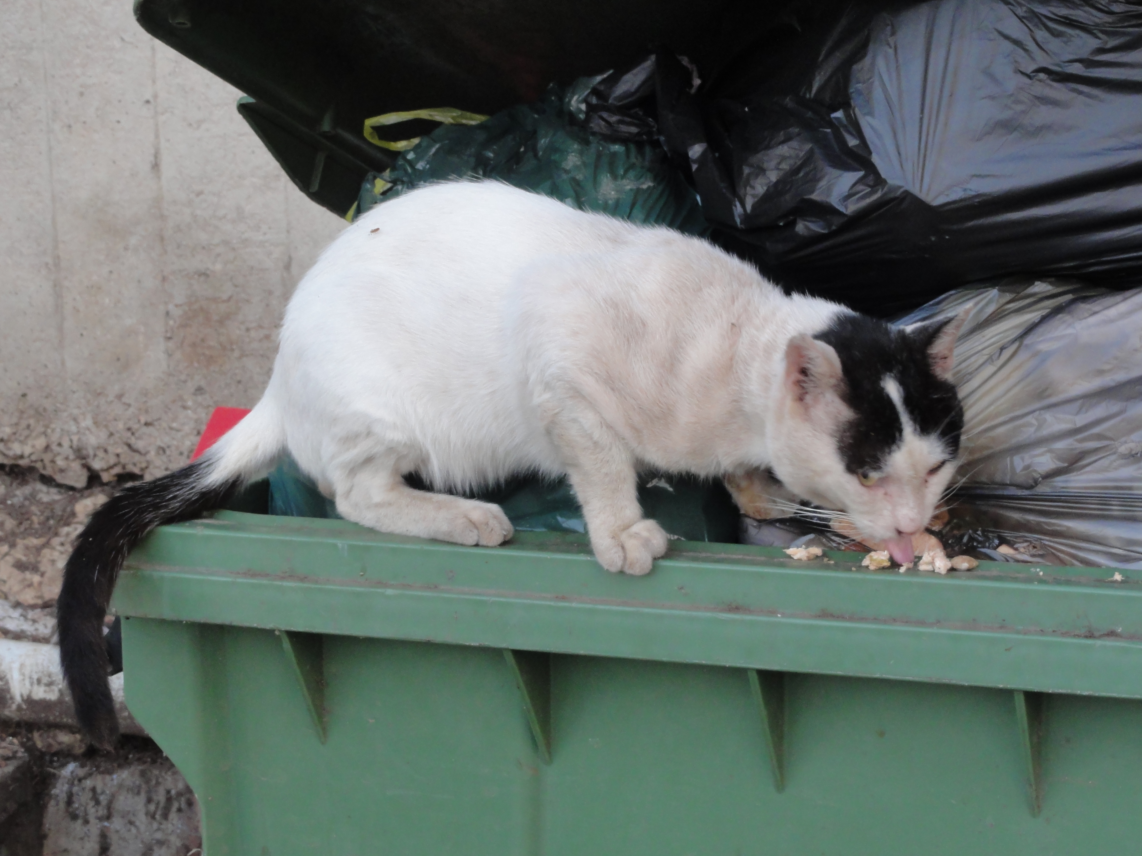 Feral cat of Israel. Info GPS data may be inaccurate. EXIF data regarding date and time may be inaccurate.